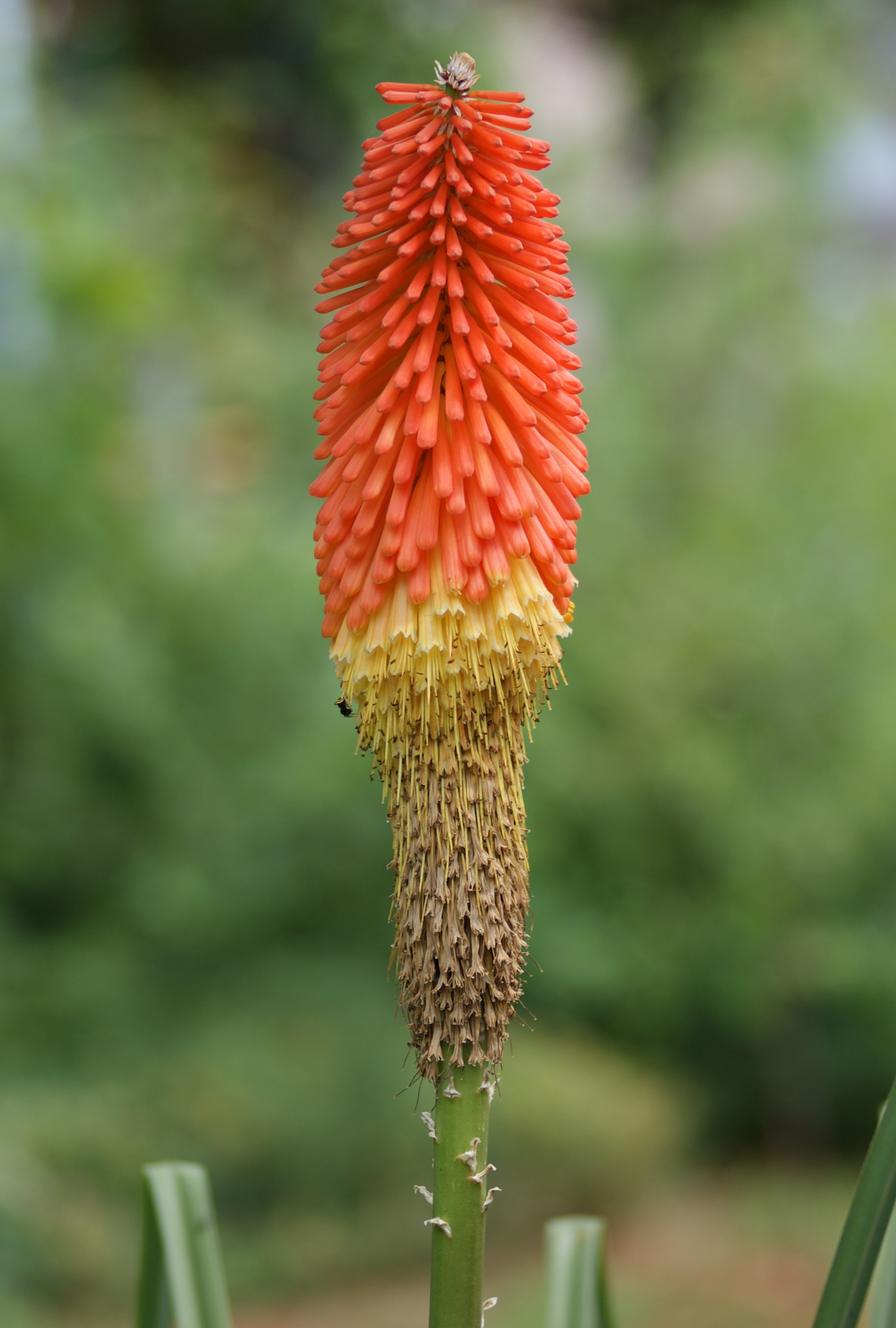 Tritoma (Kniphofia uvaria).